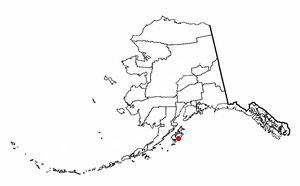 Adapted from Wikipedia's AK borough maps by Seth Ilys.